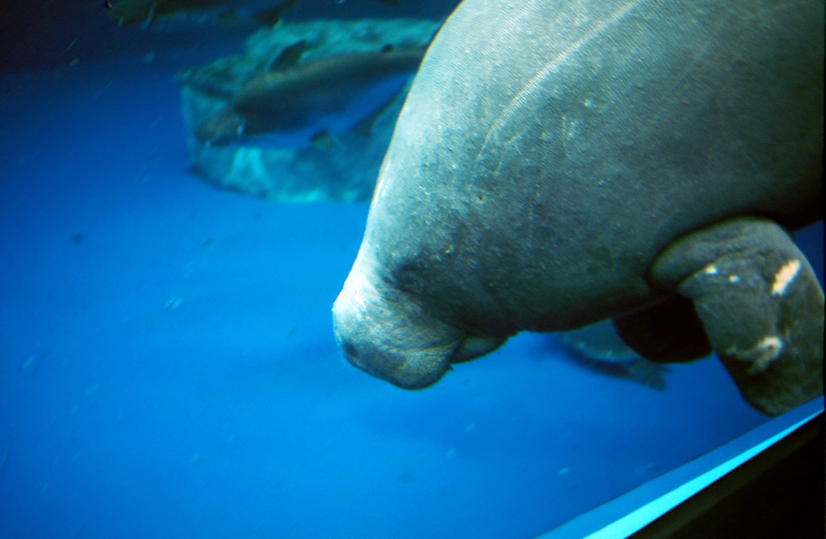 アフリカマナティ African Manatee in the Toba Aquarium, Japan Species Trichechus senegalensis Familia Trichechidae Location 鳥羽水族館 鳥羽水族館は世界で唯一アフリカマナティーを飼育している水族園です。ギニアビサウ国のゲバ川の個体だそうです。 Copyright OpenCage